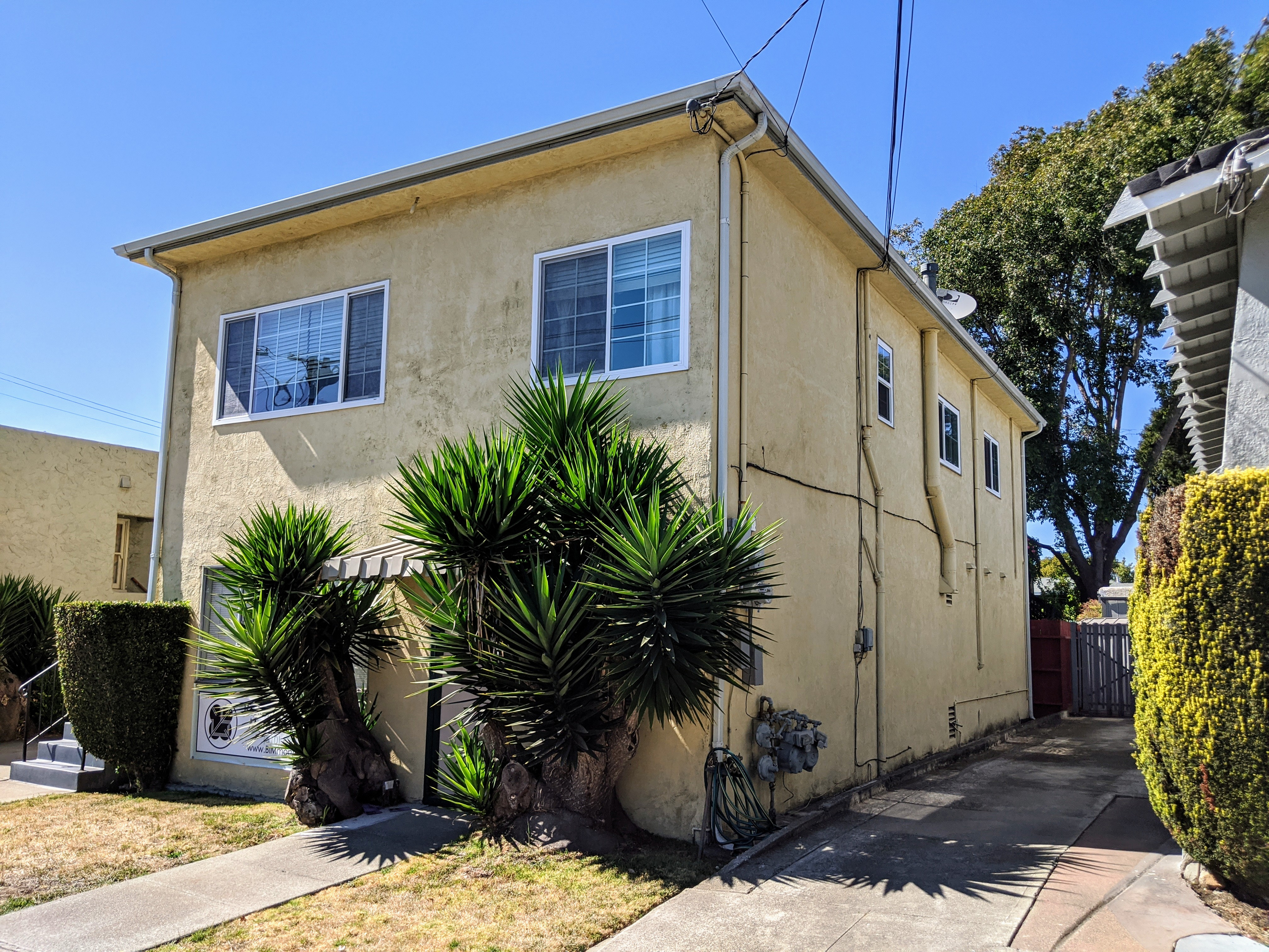 The childhood home of US Senator Kamala Harris in Berkeley, California. Photo by Jim Heaphy.